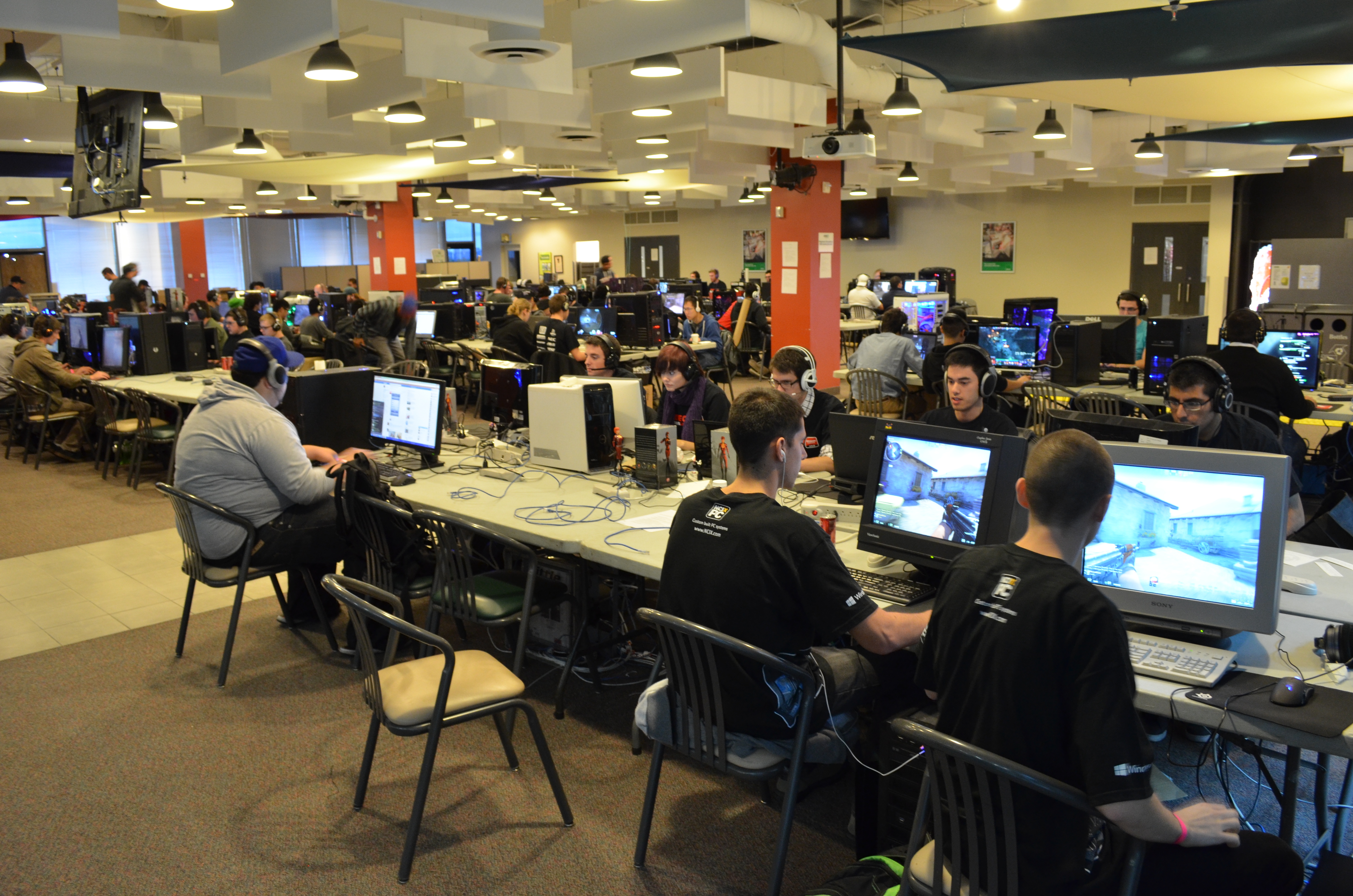 AMD ExtravaLANza